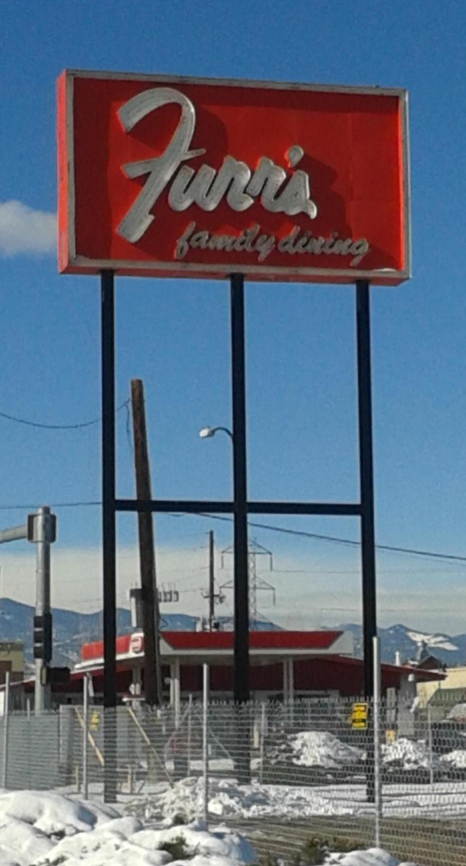 Sign for what was the last remaining Furr's restaurant in Colorado. This location was demolished in the fall of 2014 after closing earlier in the year.